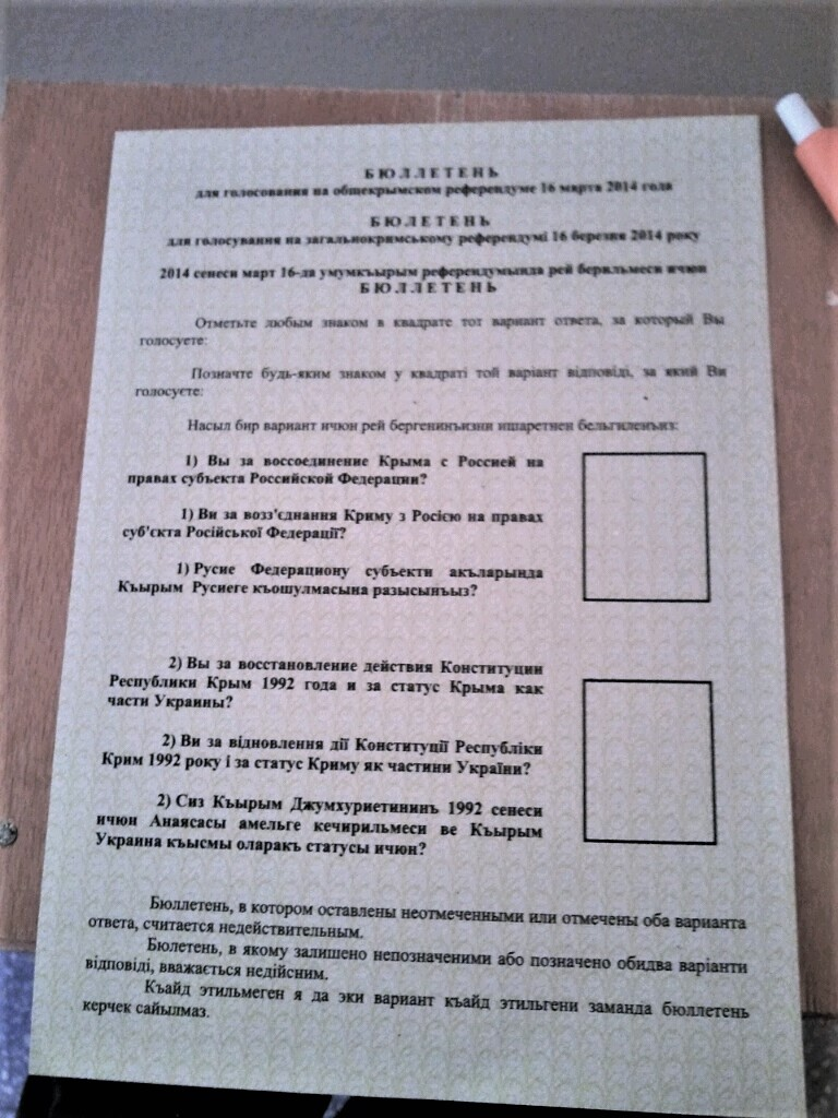 A ballot paper for the 2014 Crimean referendum.